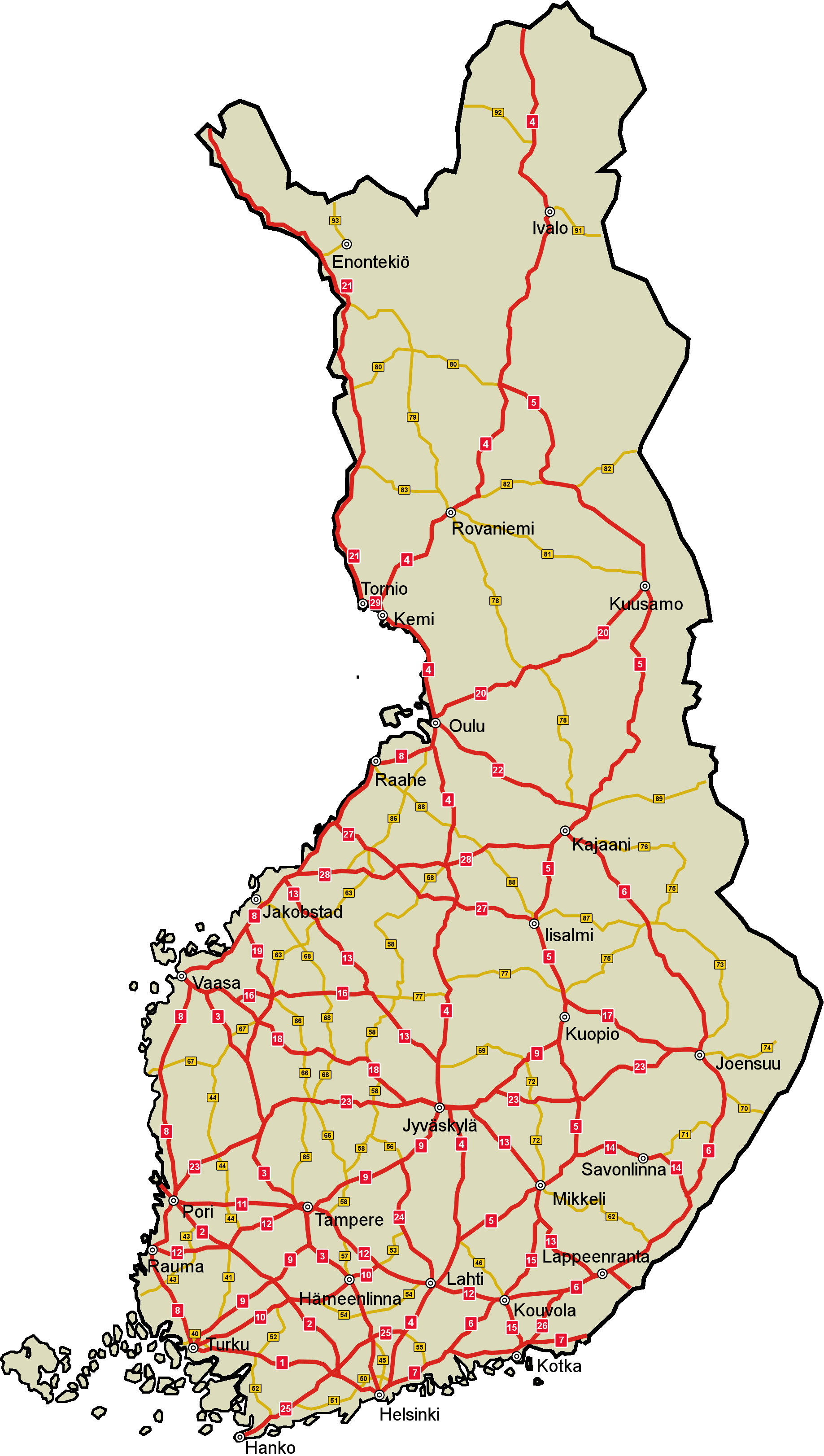 Map of main roads in Finland. 1st class main roads (numbers 1–29) are red, 2nd class main roads (numbers 40–98) yellow.